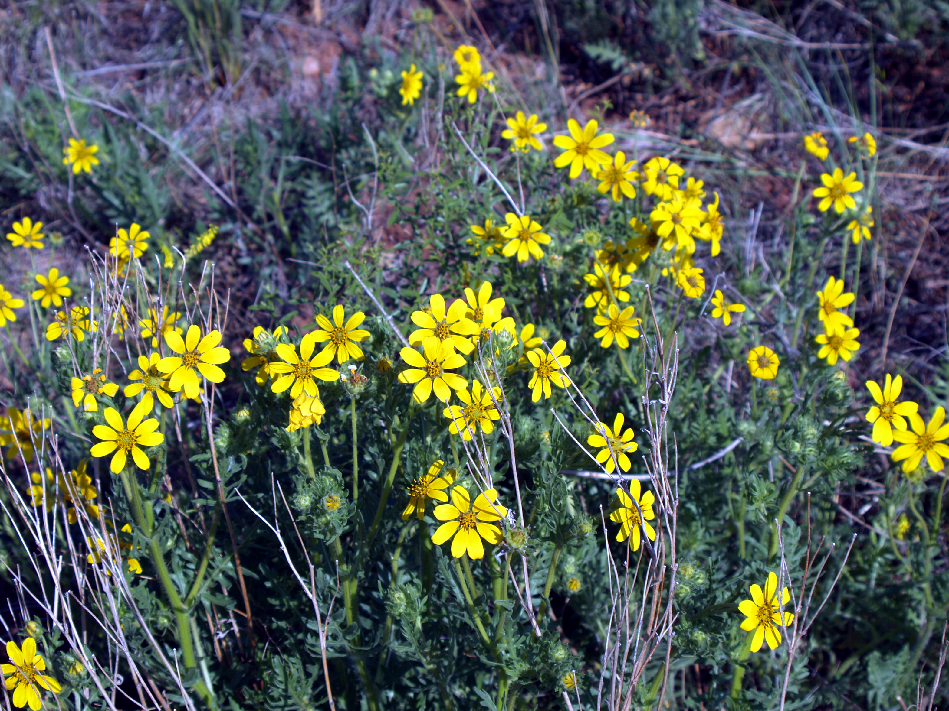 Coreopsis palmata at Wind Cave National Park, South Dakota, USA